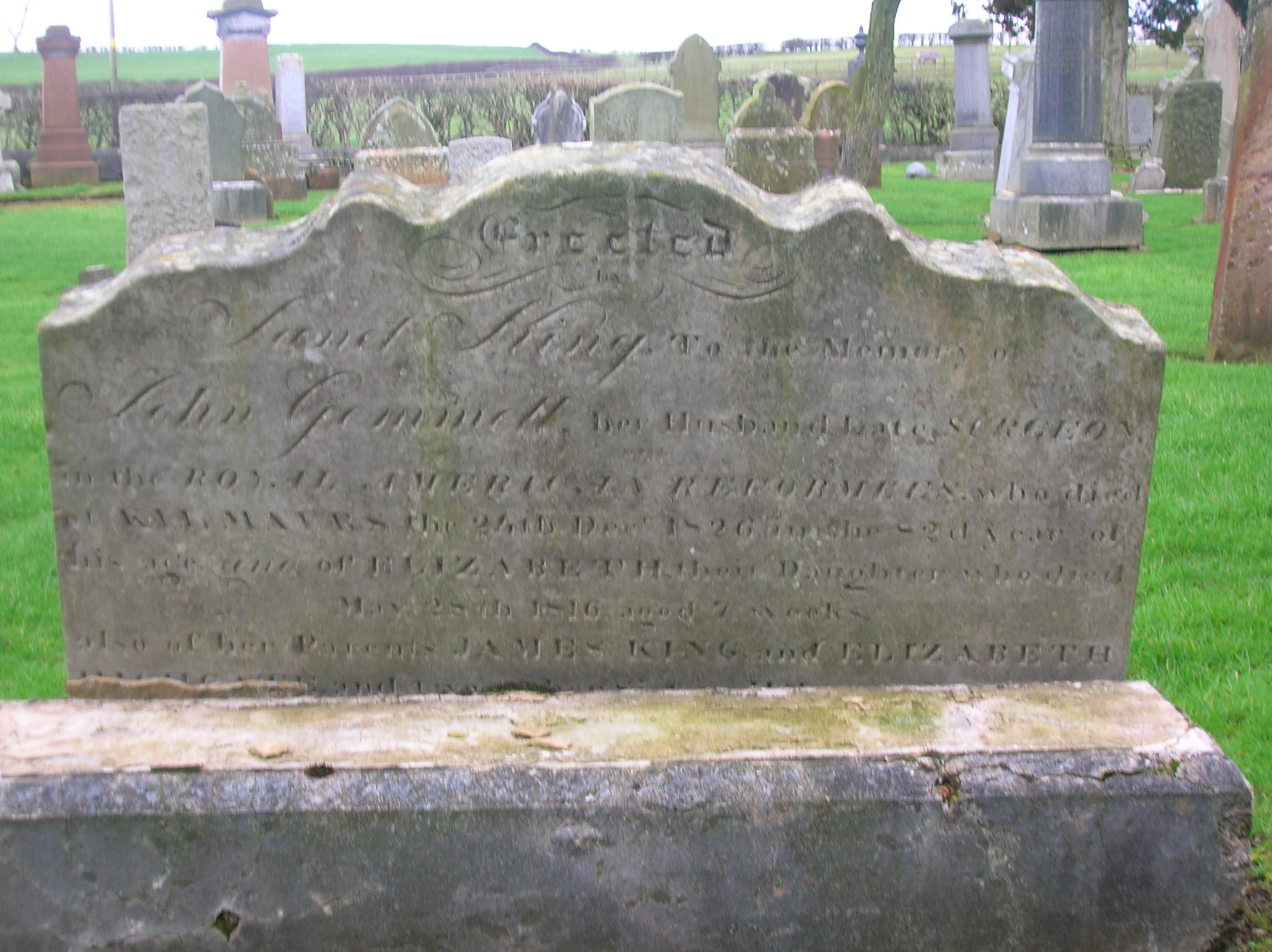 John Gemmell's gravestone, Surgeon to the Royal American Reformers. Kilamurs-Glencairn churchyard, East Ayrshire, Scotland.